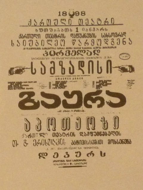 Poster of Giorgi Eristavi's play "The Family Settlement"